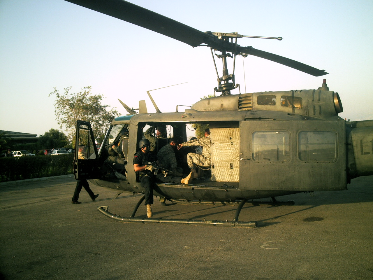 Lebanese Navy SEALs boarding a UH-1H in a maneuver performed during Security Middle East Show in BIEL, Beirut - Lebanon.